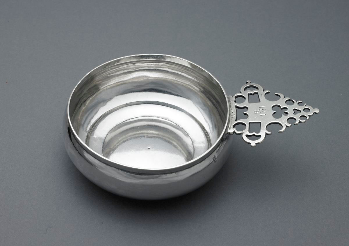 A silver porringer made by silversmith John Coney in early eighteenth-century Boston.